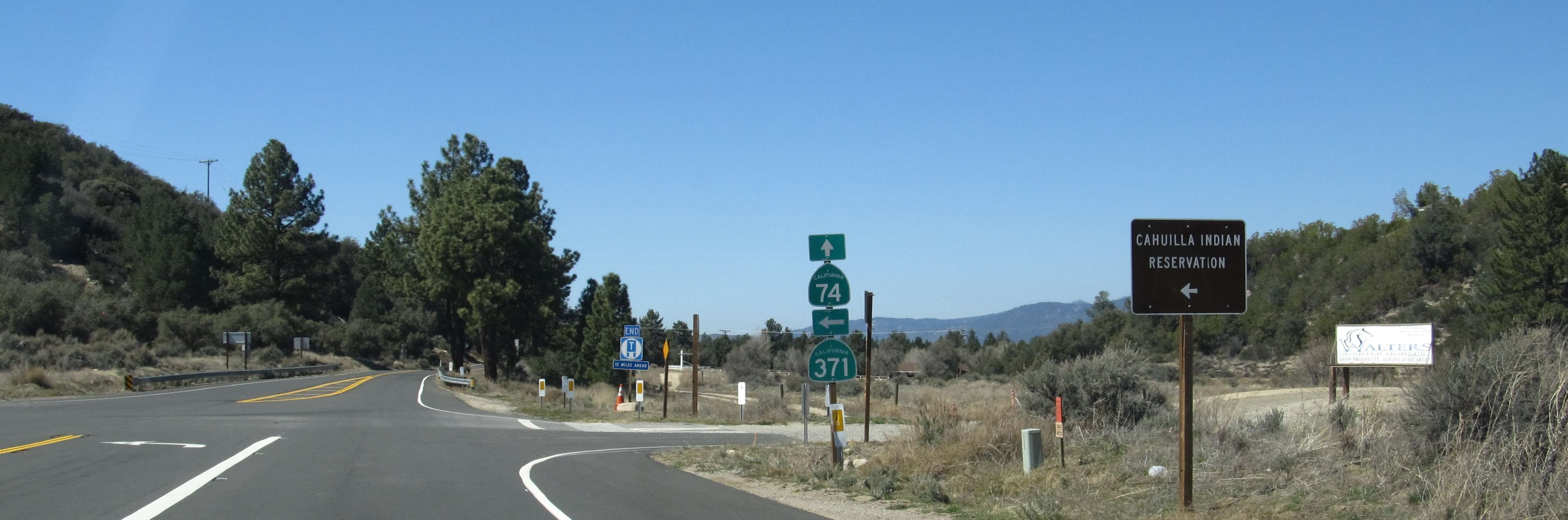 Near Junction of State Routes 74 and 371, Anza, California